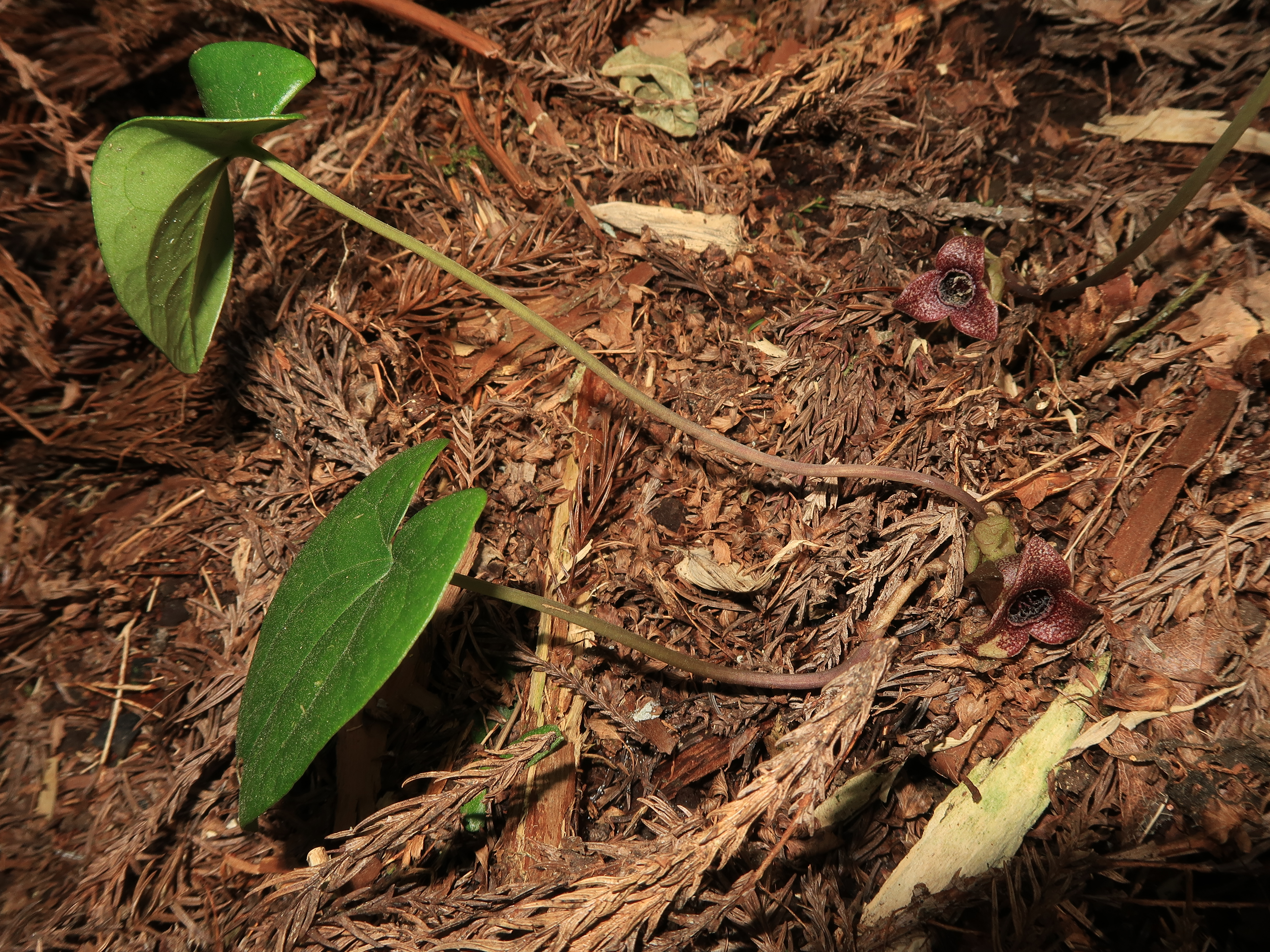 Asarum takaoi, Toyama city, Toyama pref., Japan